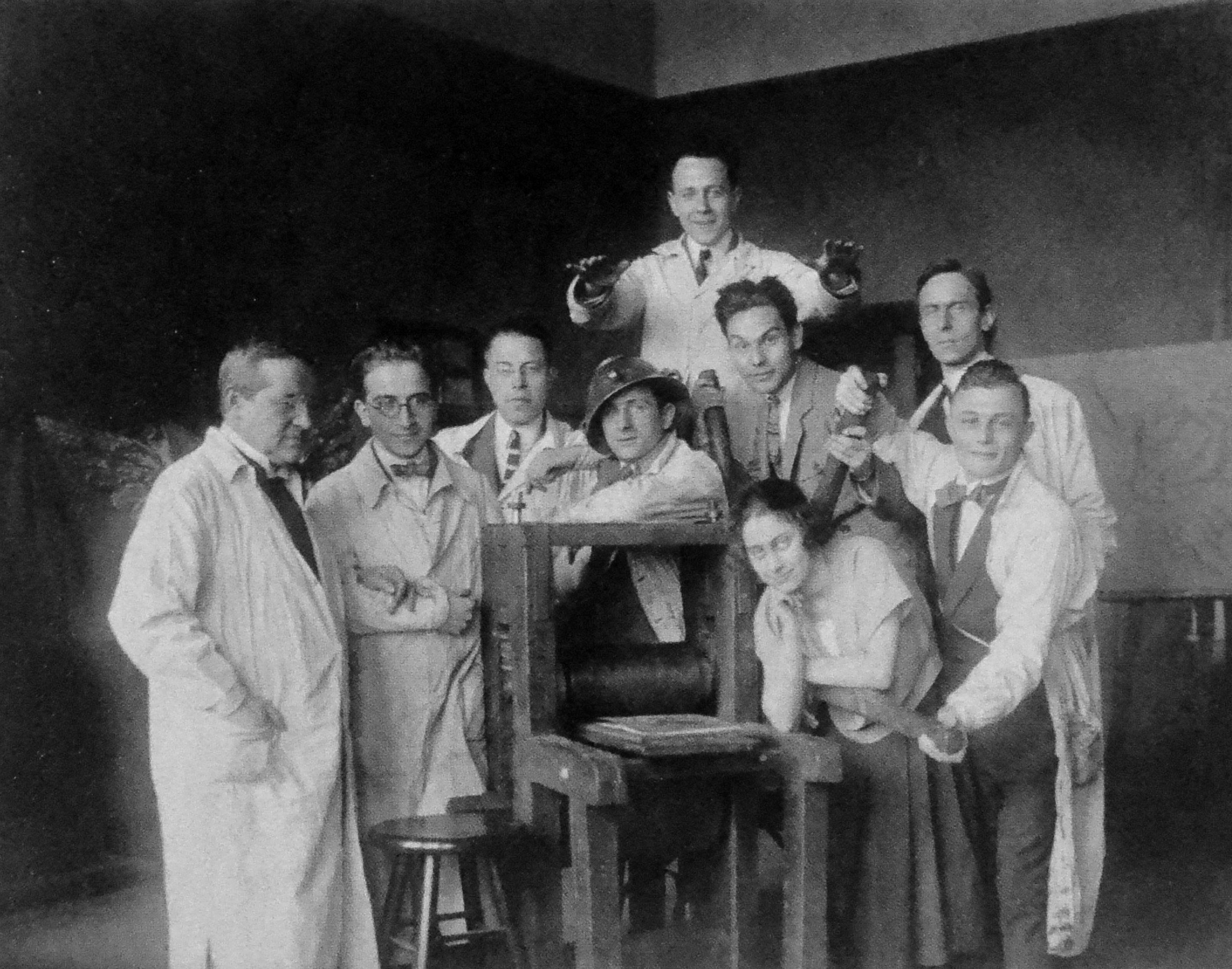 Prof. August von Brandis with students, c. 1925